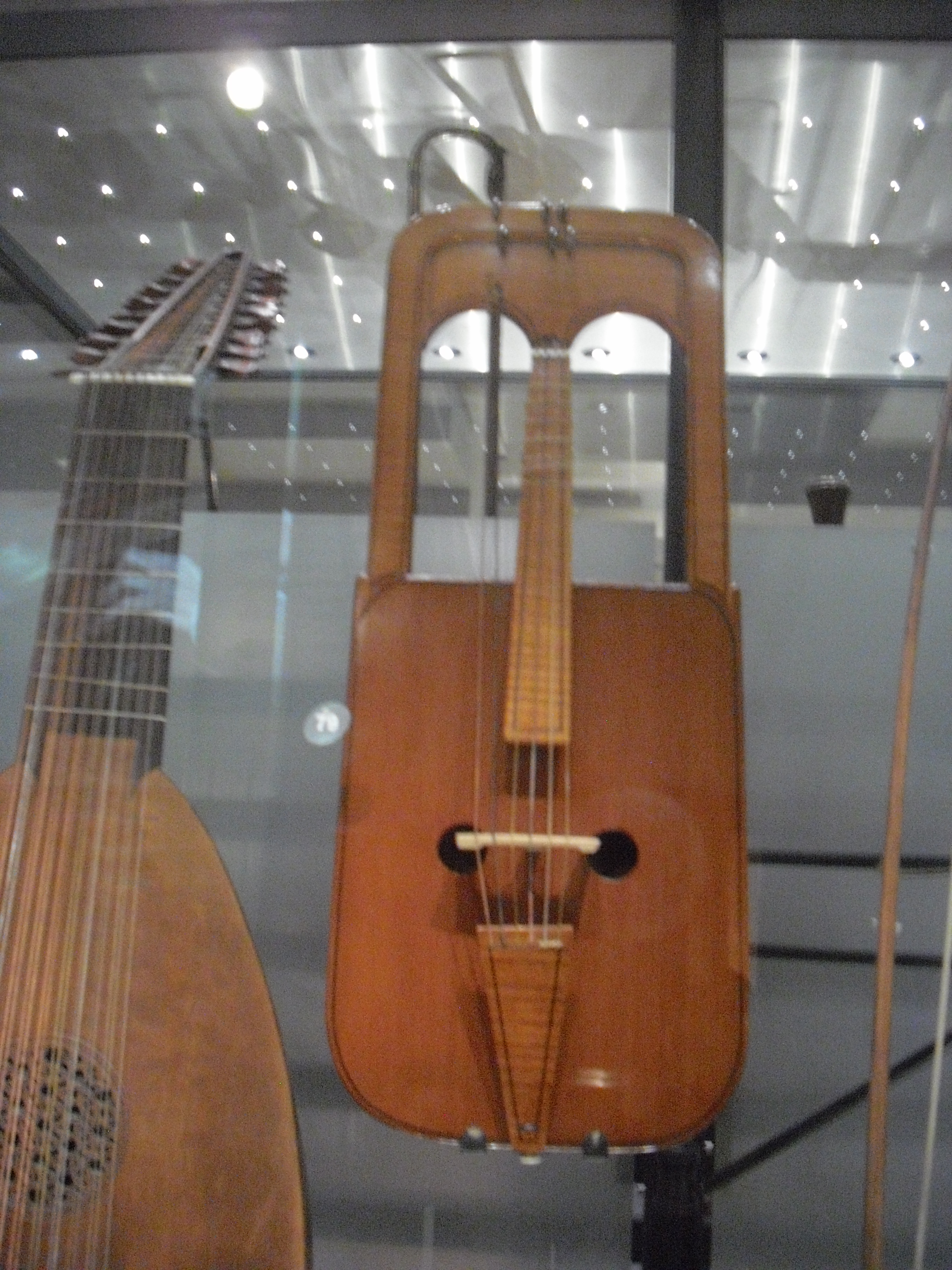 A 20th century crwth in the Horniman Museum, London, UK. Made by Arnold Dolmetsch